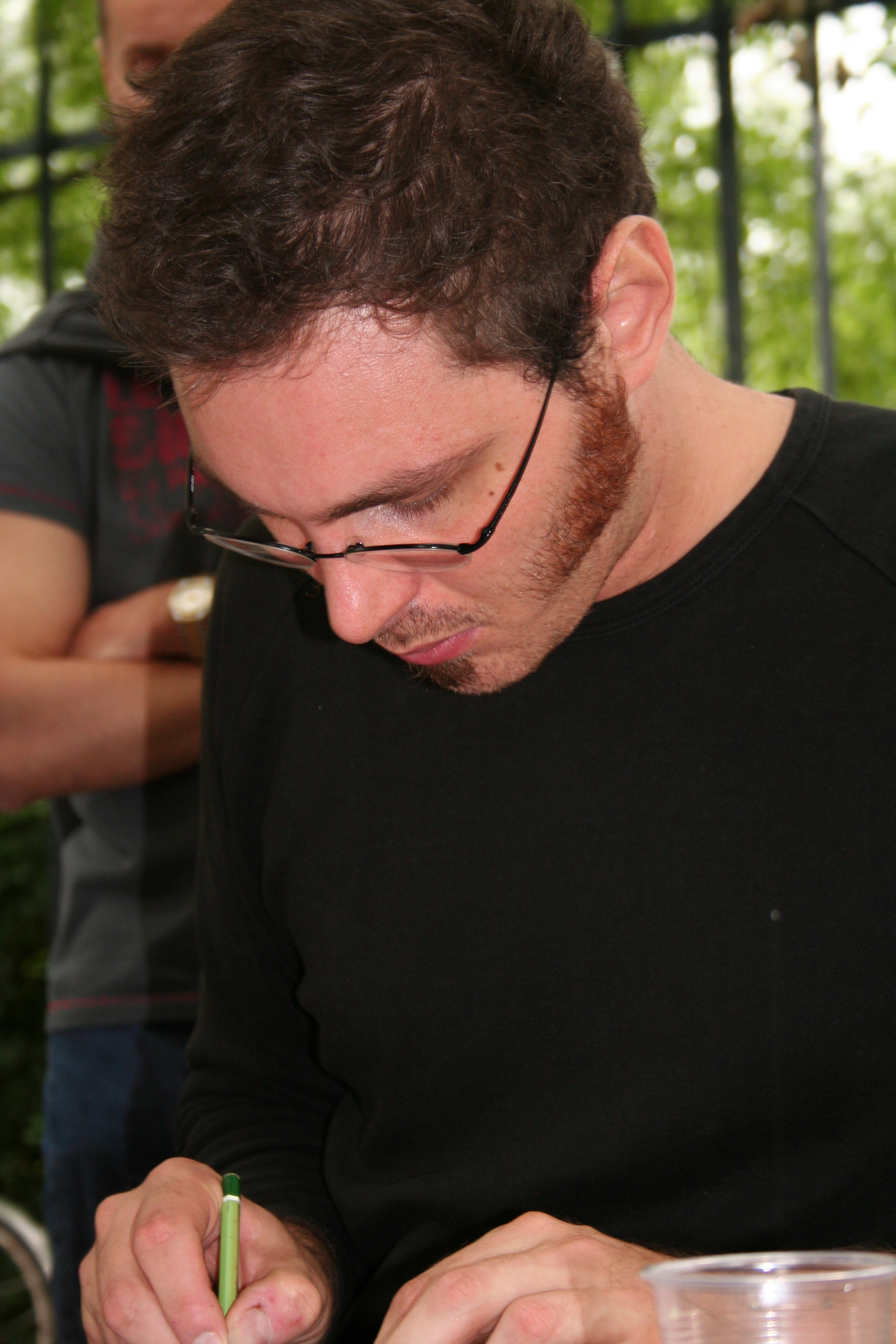 Autograph session with Alfred (Lionel Papagelli) at Delcourt festival 2006 (Paris, France).